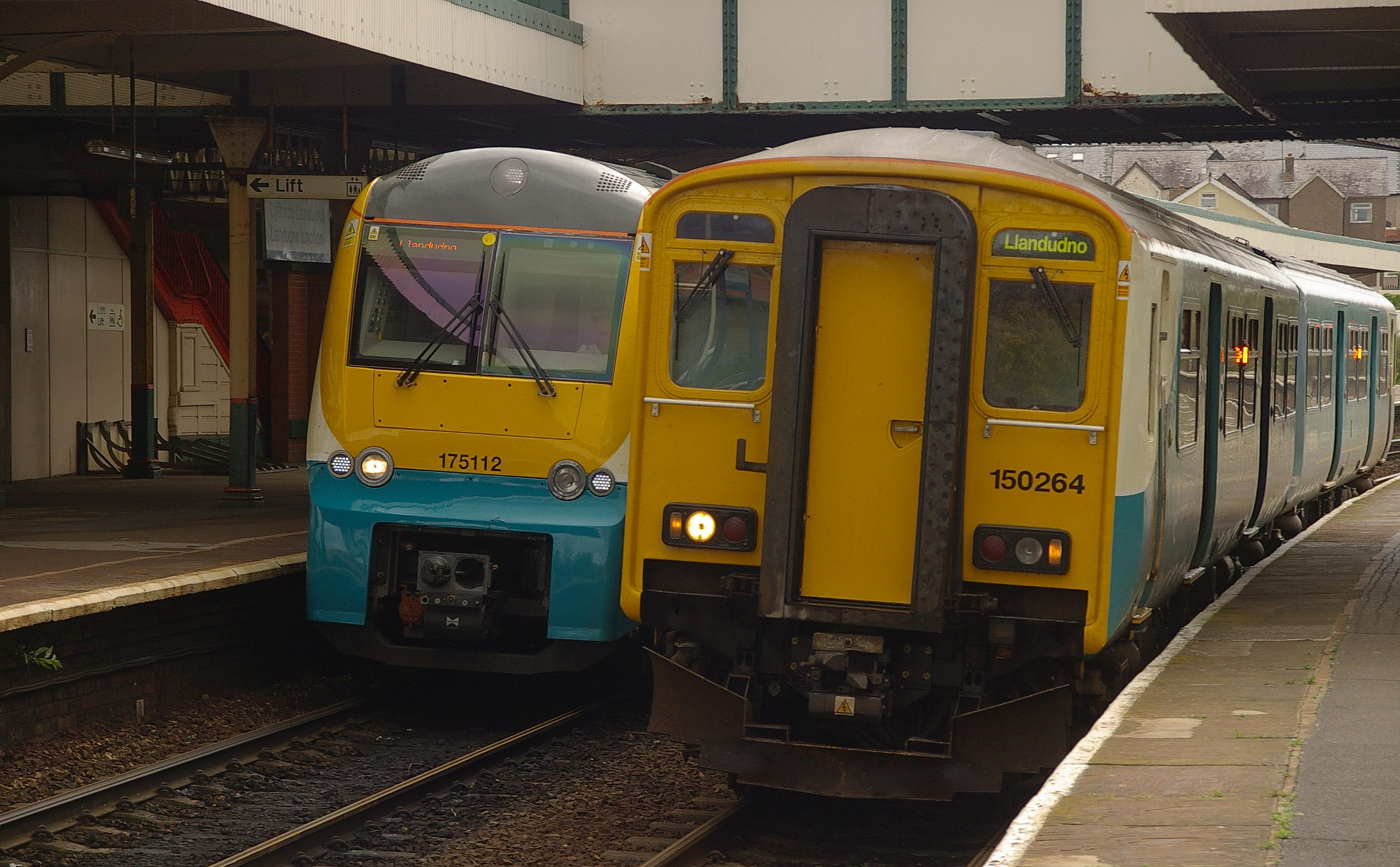 Arriva Trains Wales 175112 and 150264 meet at Llandudno Junction railway station, both headed to Llandudno.